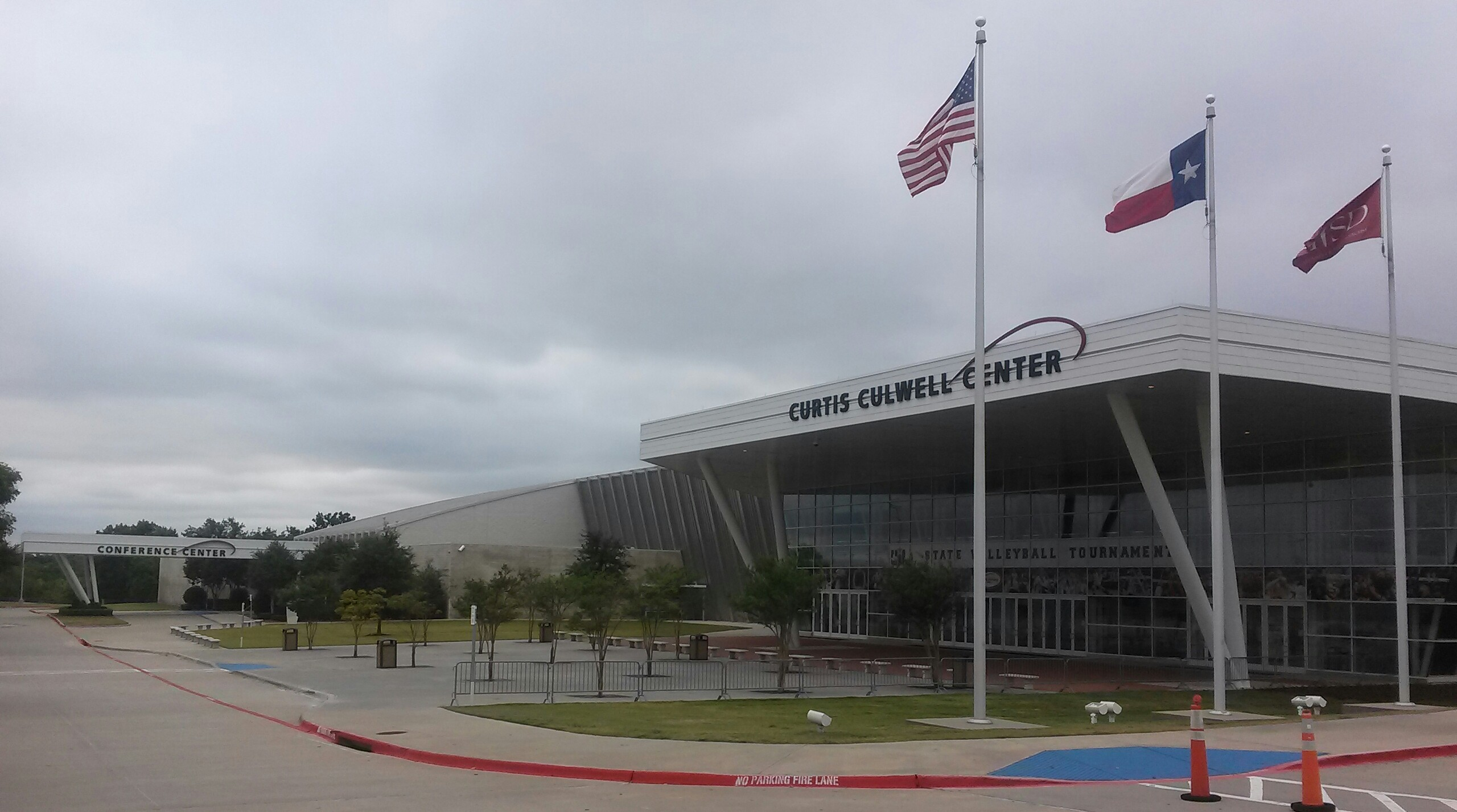 Garland Curtis Culwell Convention Center